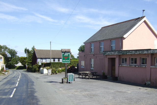 The Alpha Inn, Tavernspite Needs a lick of paint!